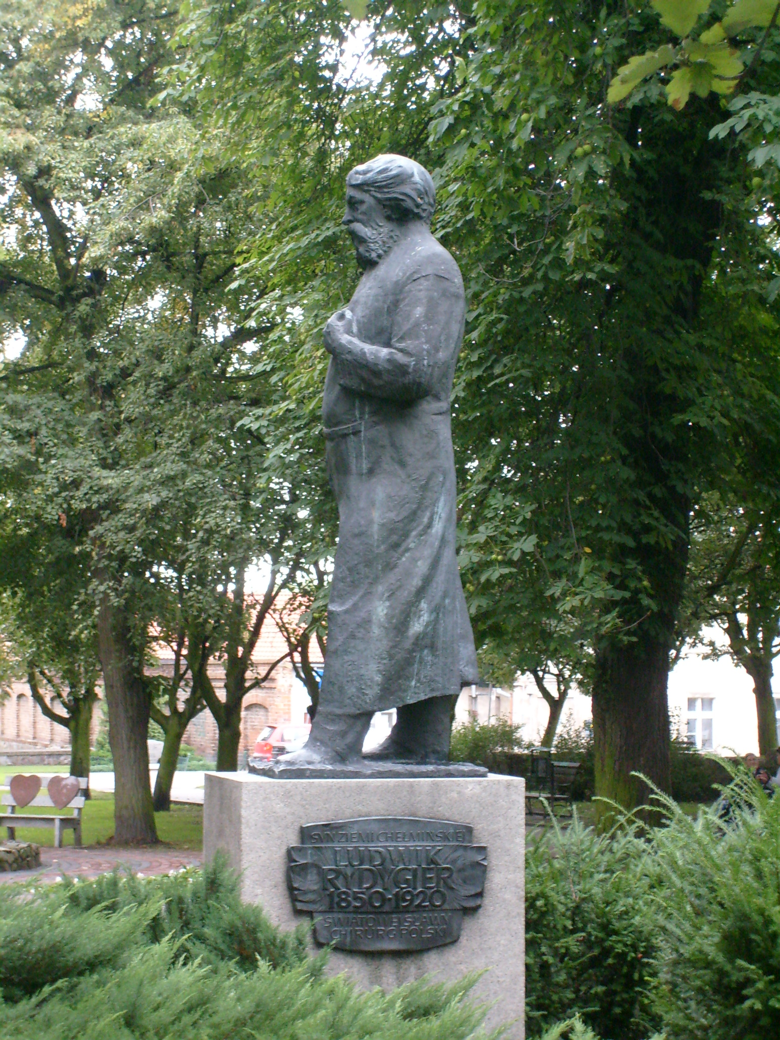 The monument of Ludwik Rydygier. Photo made in Chełmno, Poland